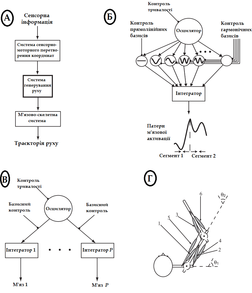 Dynamical model of the movement generation system by Rokni & Sompolinsky.